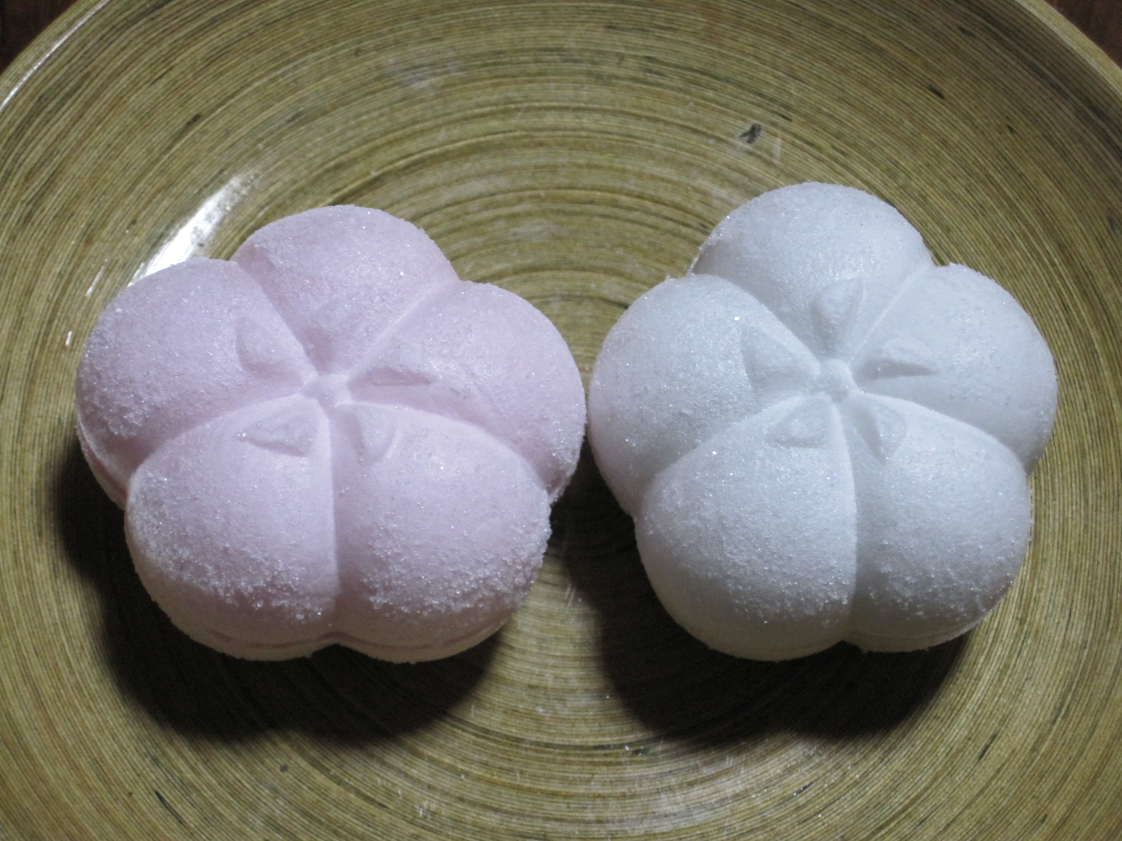 Fukuume(Japanese Sweets)